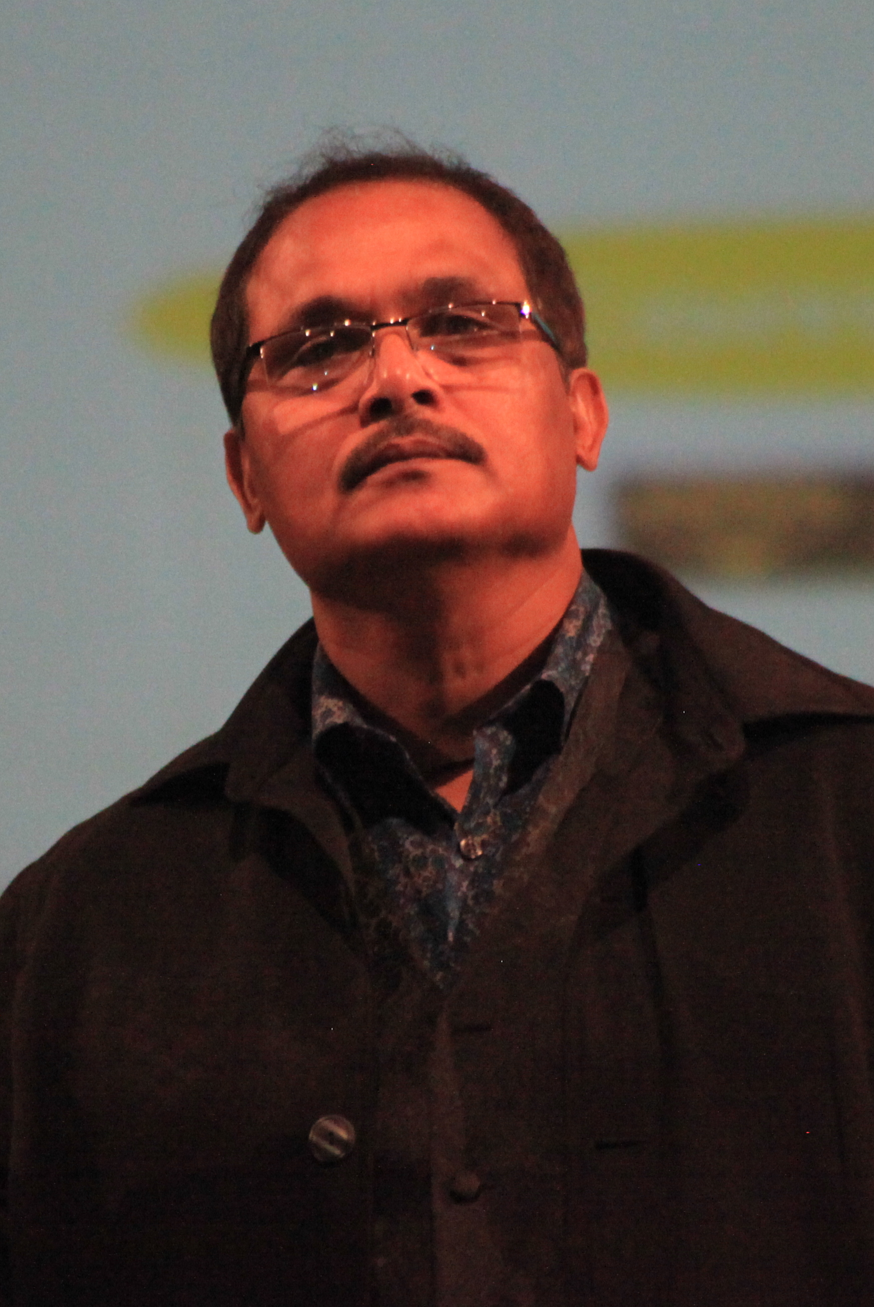 Tapan performing in San Jose, California during the BABA Eid Reunion event